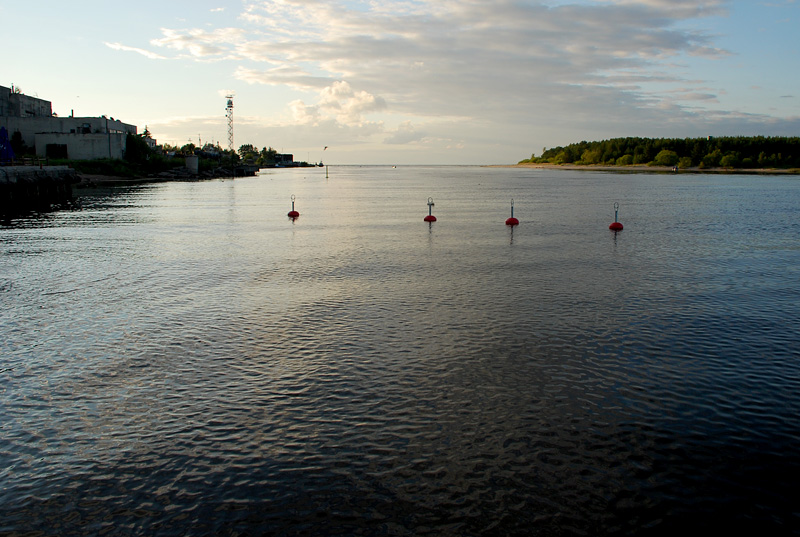 Estonia, Narva-Jõesuu